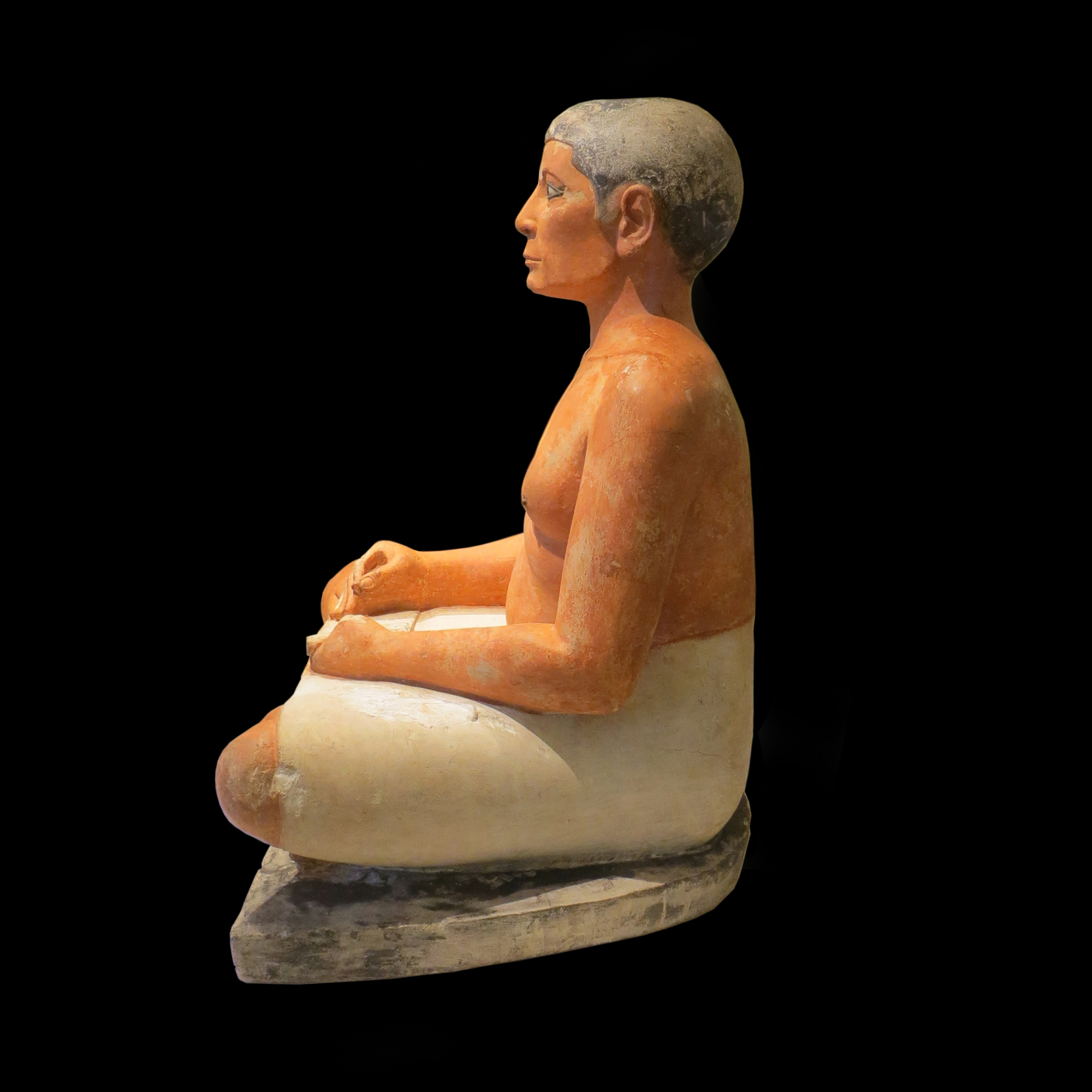 Paris for SIAM PP 2016